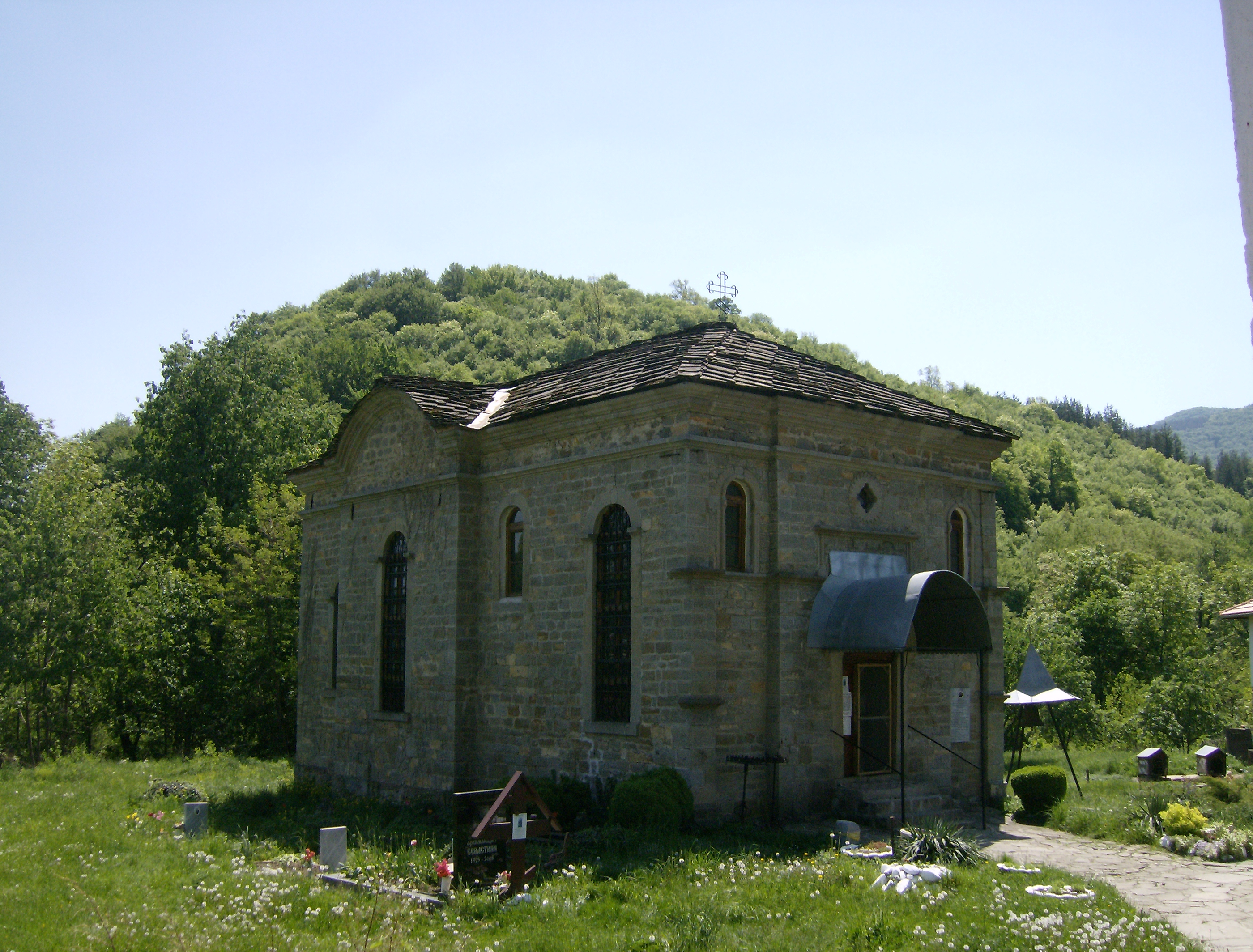 Batoshevo nun monastery